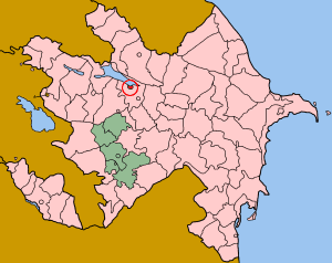 Map of Azerbaijan showing Mingachevir (Mingəçevir) sahar.